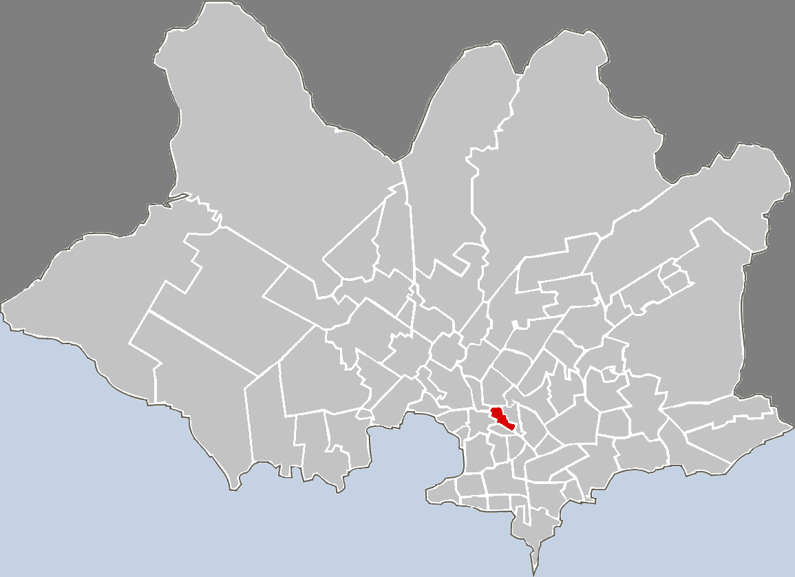 Blank map of the barrios of Montevideo